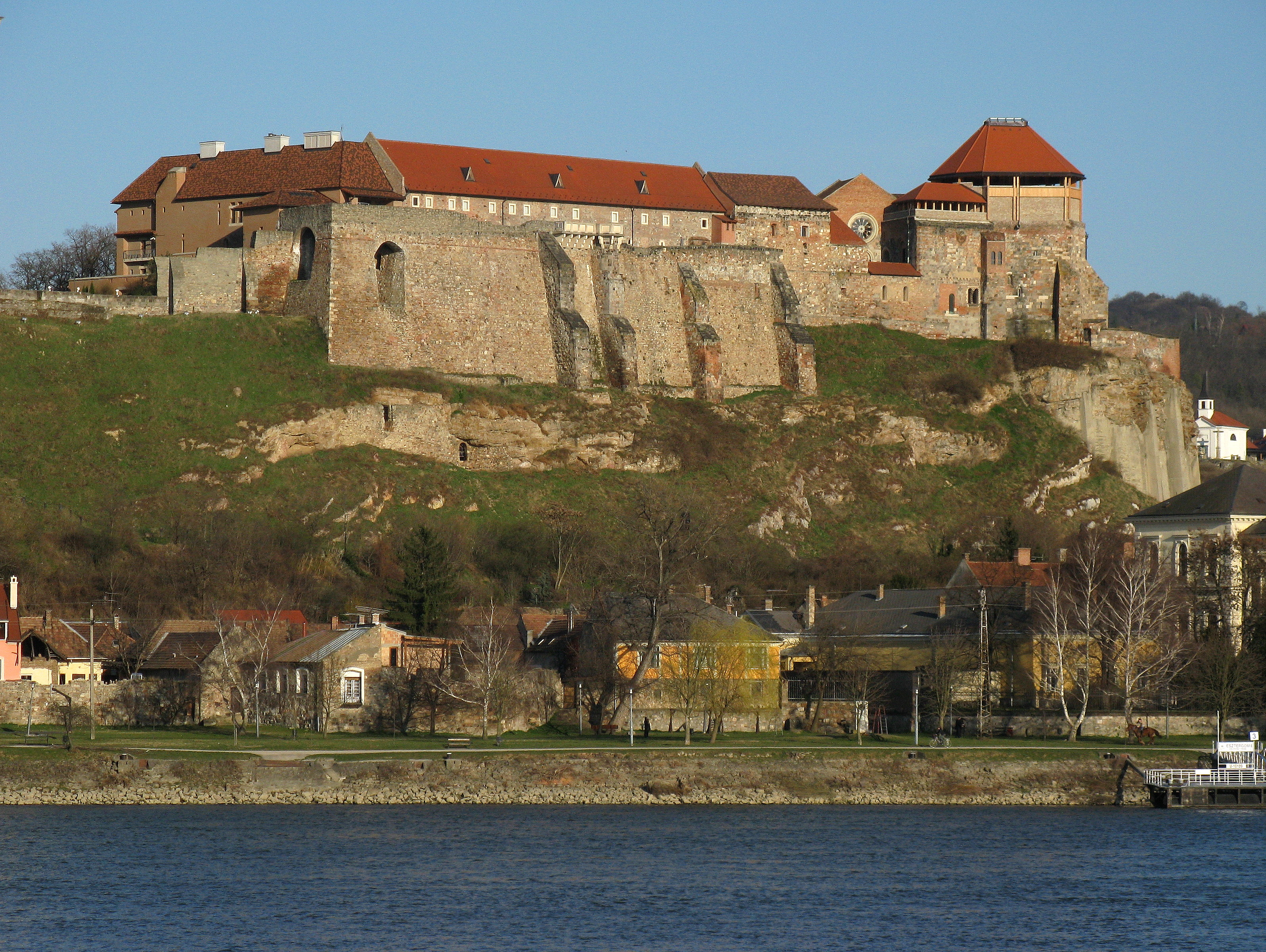 fist hungarian king was born here